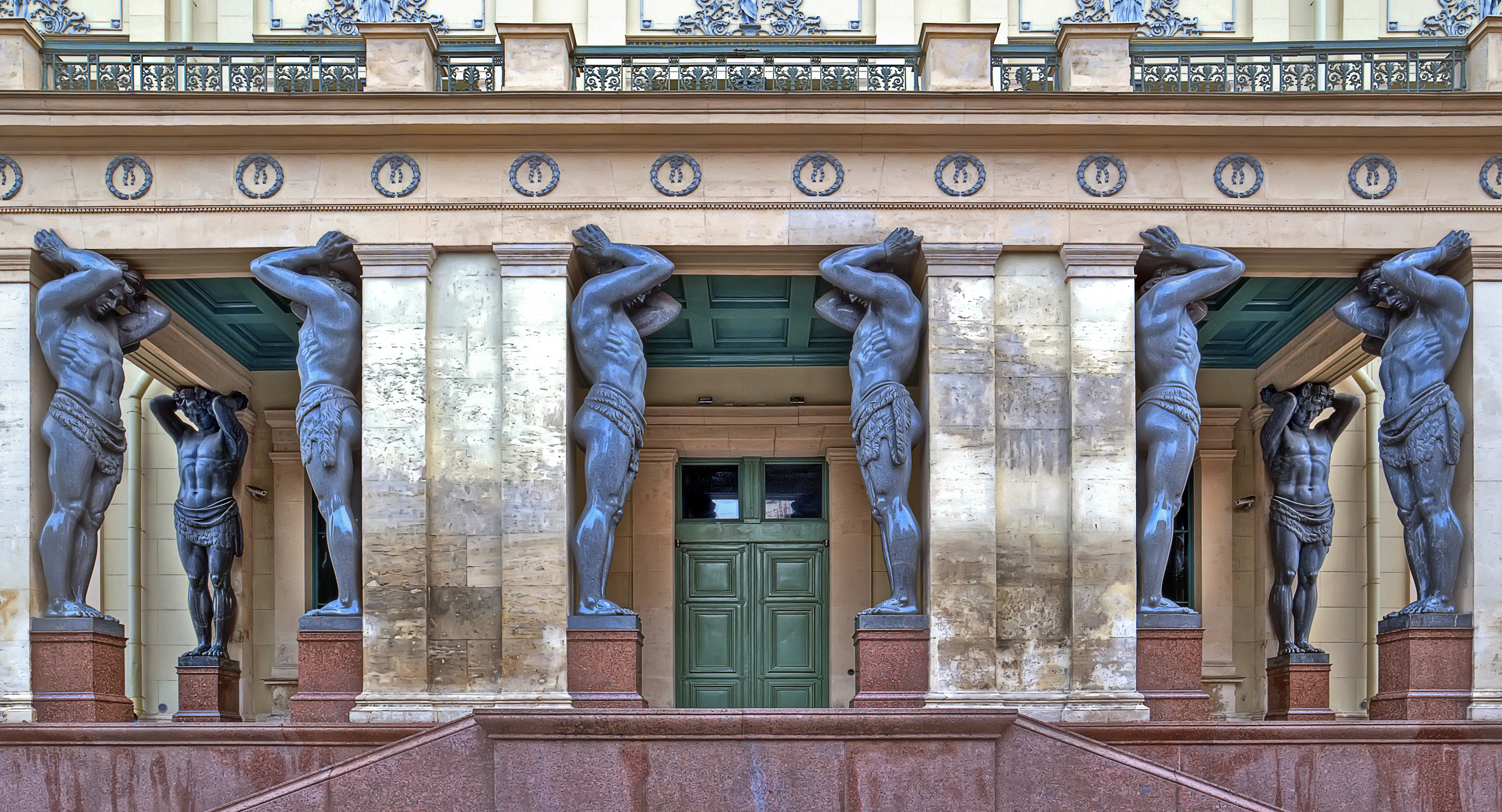 Hermitage Portico with Atlantes. Saint Petersburg, Russia.